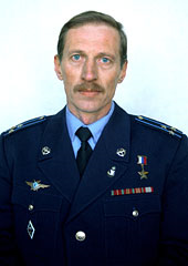 Raevskii` Alexander Mihailovich. Hero Of The Russian Federation. Colonel